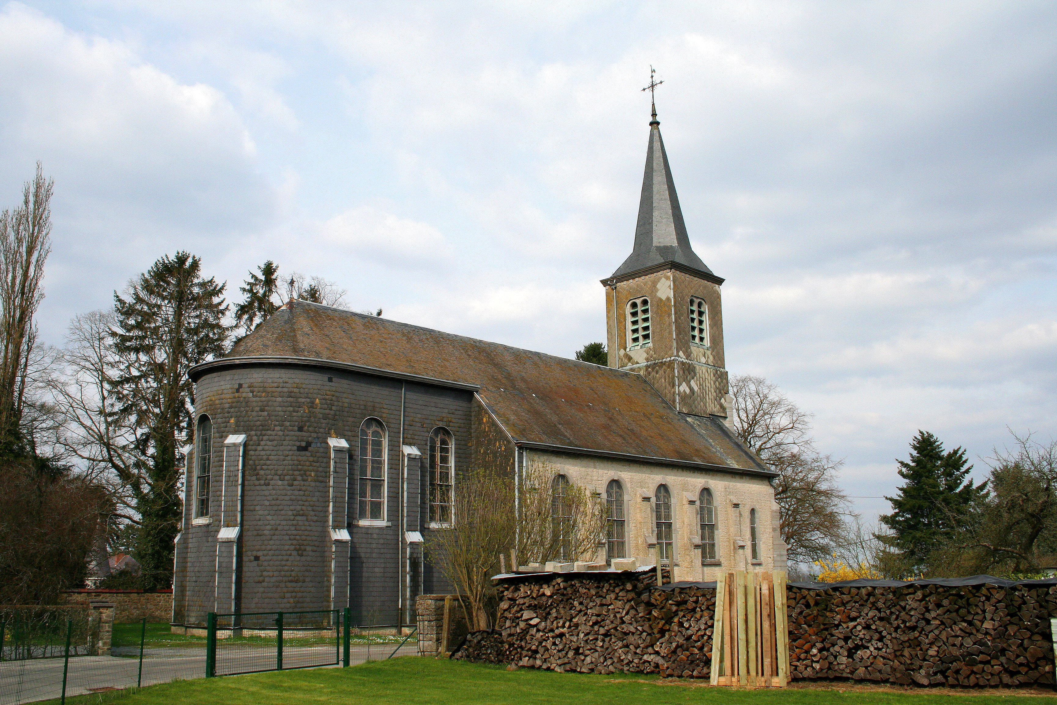 Sohier (Belgium), the church of St. Lambert (XIXth century).